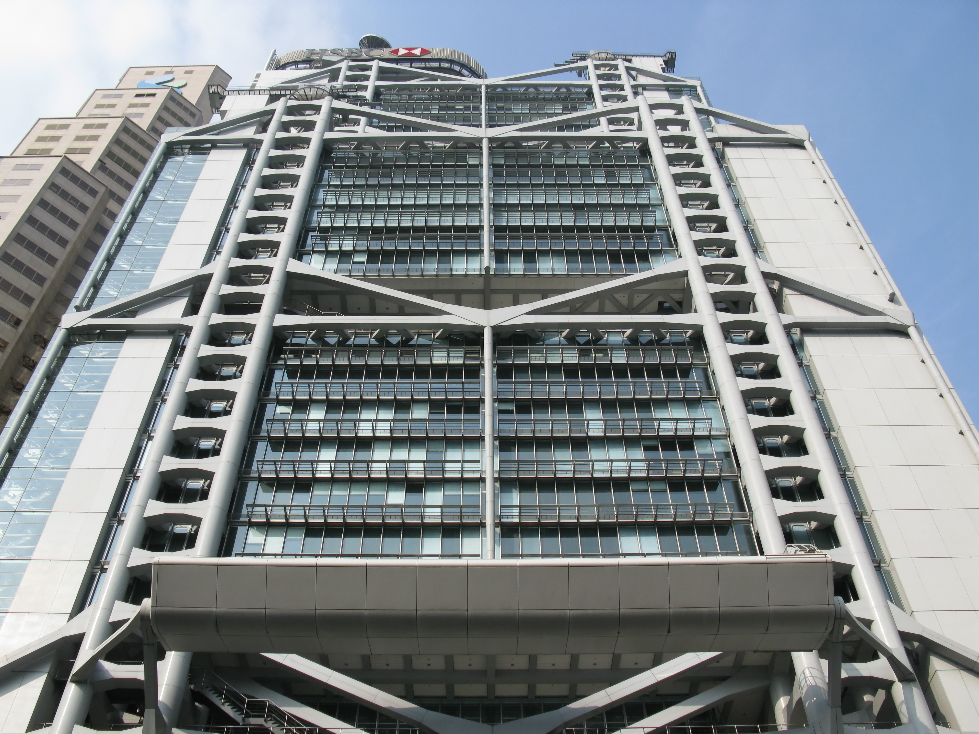 Southern Facade of the HSBC Hong Kong headquarters building.